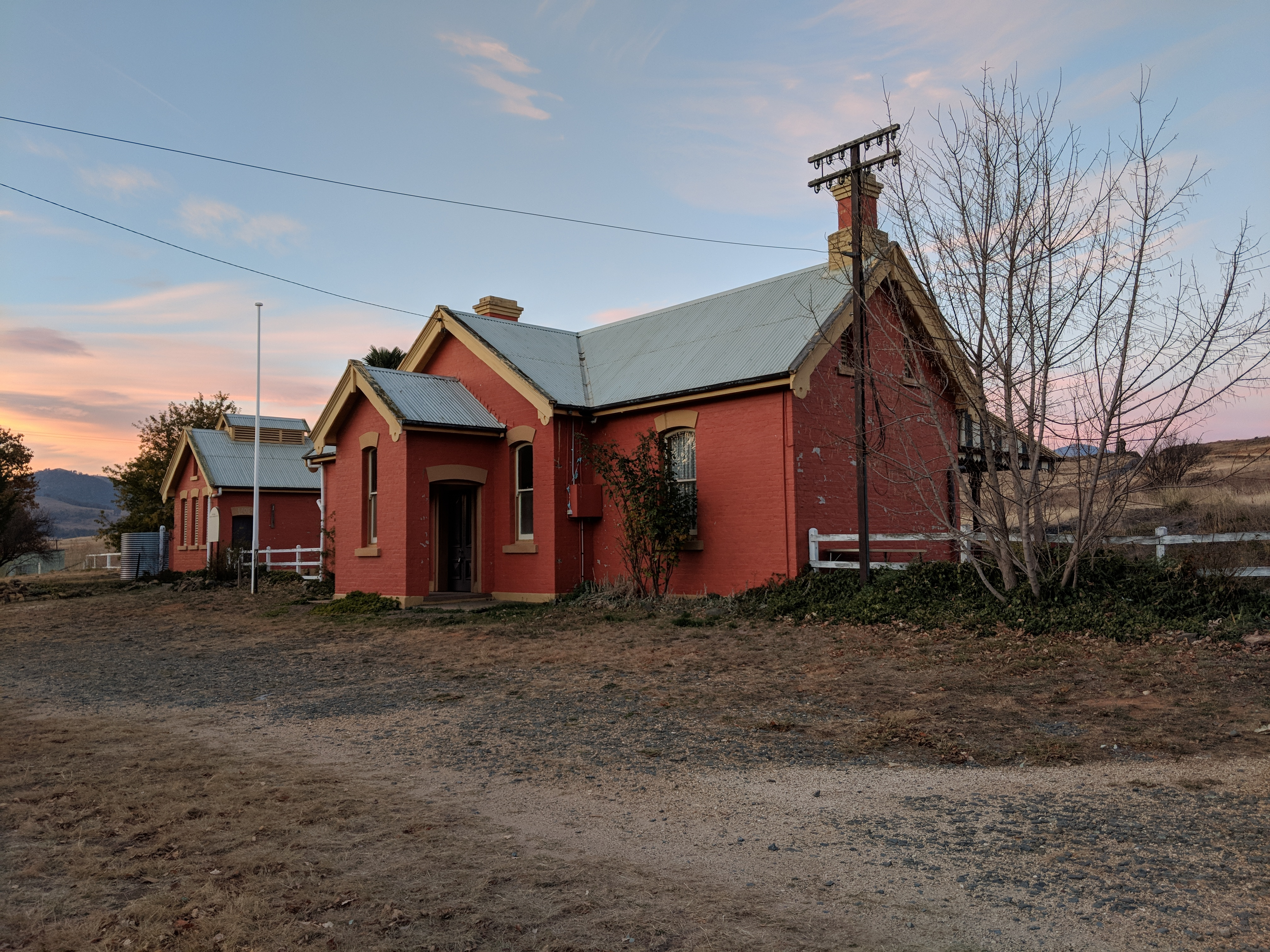 Michelago railway station, street side